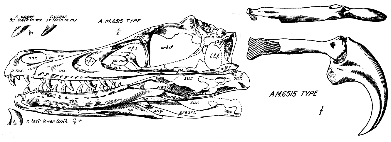 Type skull and claw (Amer. Mus. 6515) of Velociraptor mongoliensis.